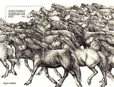 Stamp of Kyrgyzstan